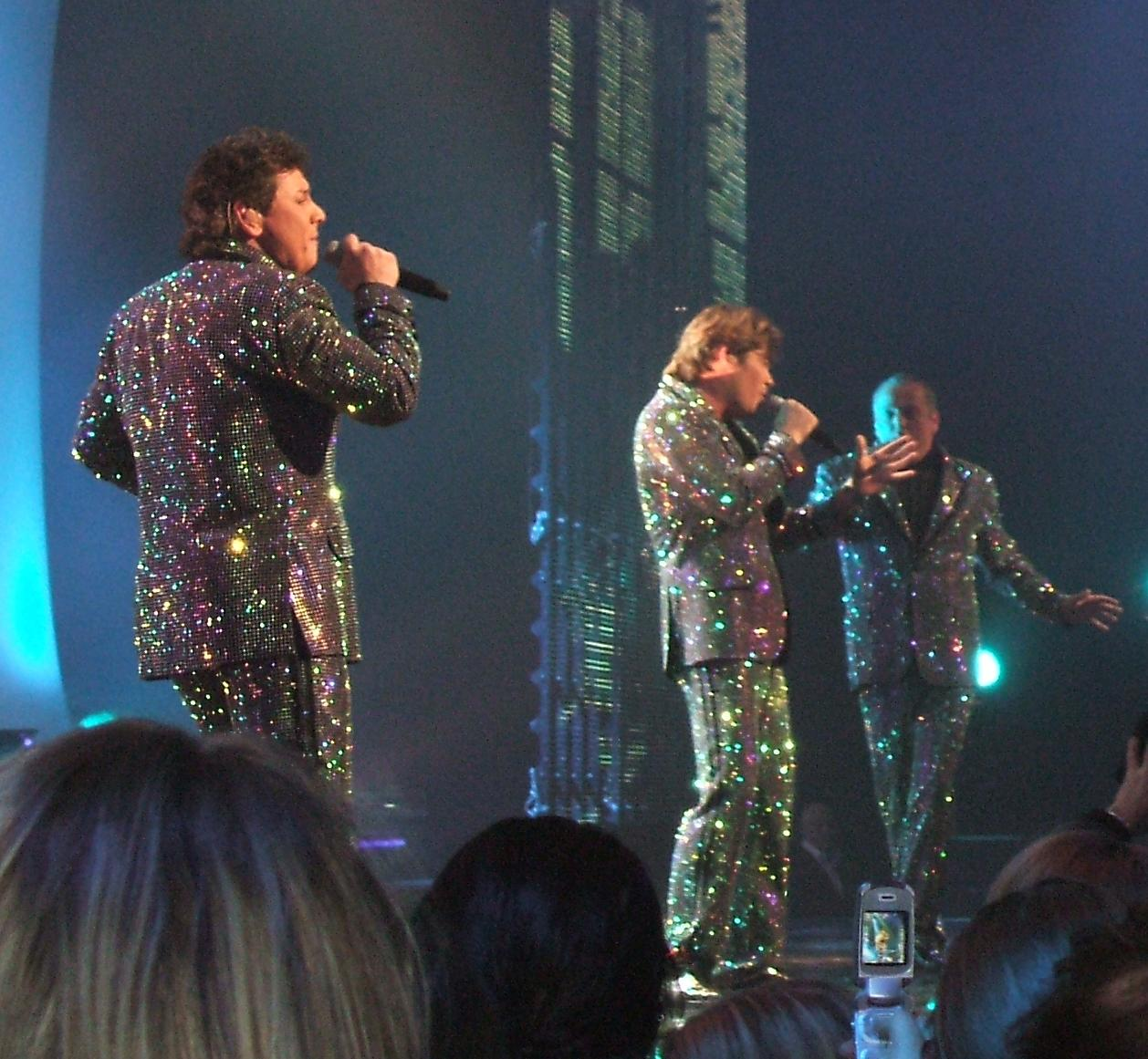 De Toppers at the Nationaal Songfestival 2009